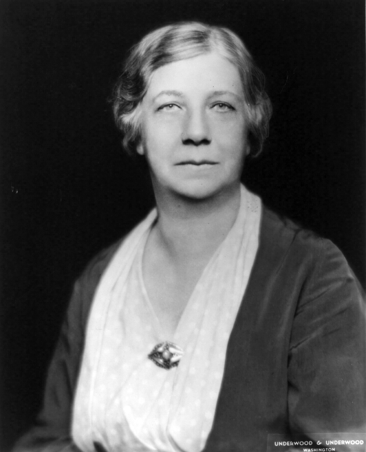 Mary Ritter Beard, American historian and suffragette